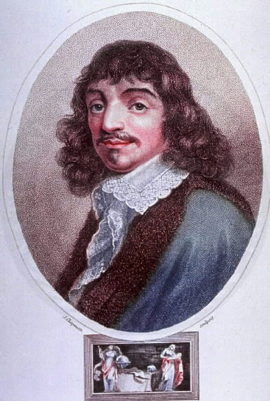 René Descartes.jpg Downloaded from : [1] London. : J. Wilkes. , July 12, 1800 : 1 print, engraving, color